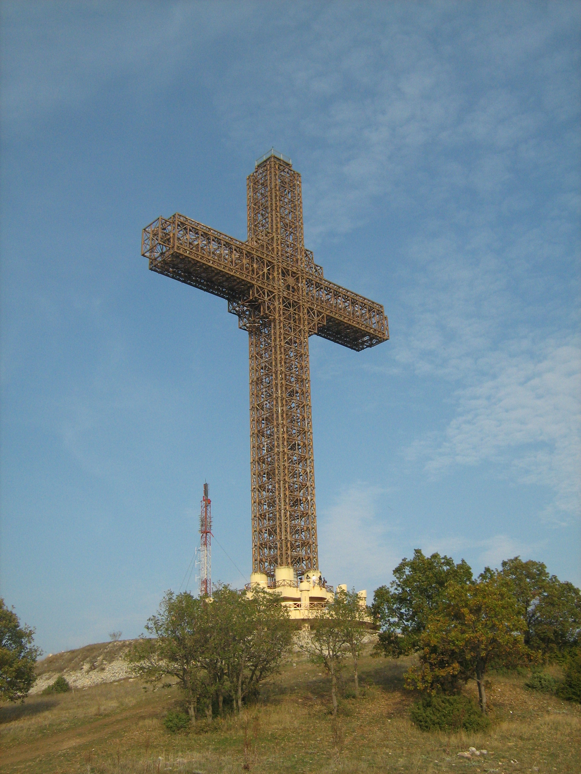 The Millennium Cross on Mt. Vodno in Skopje